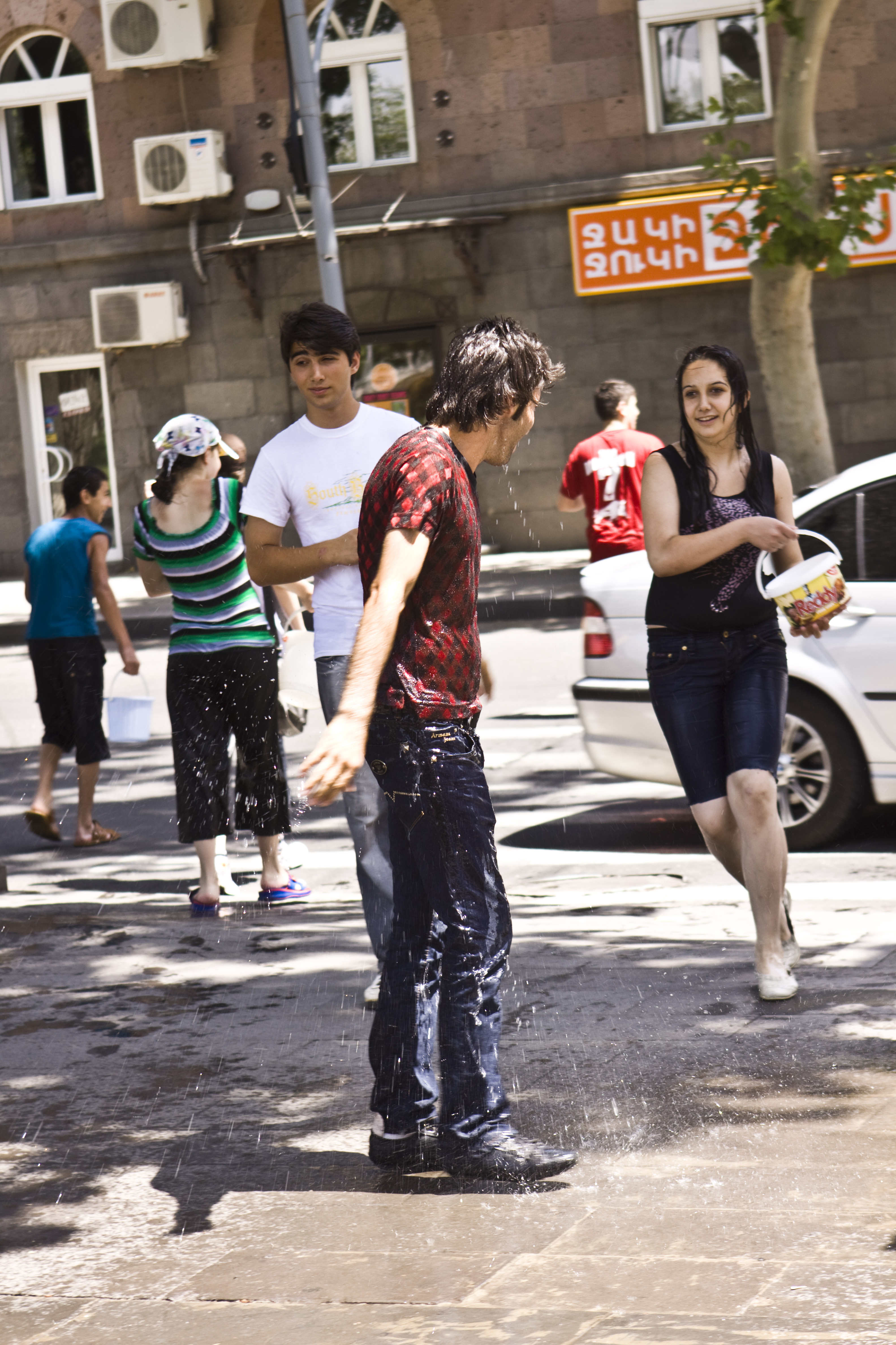 Vartavar